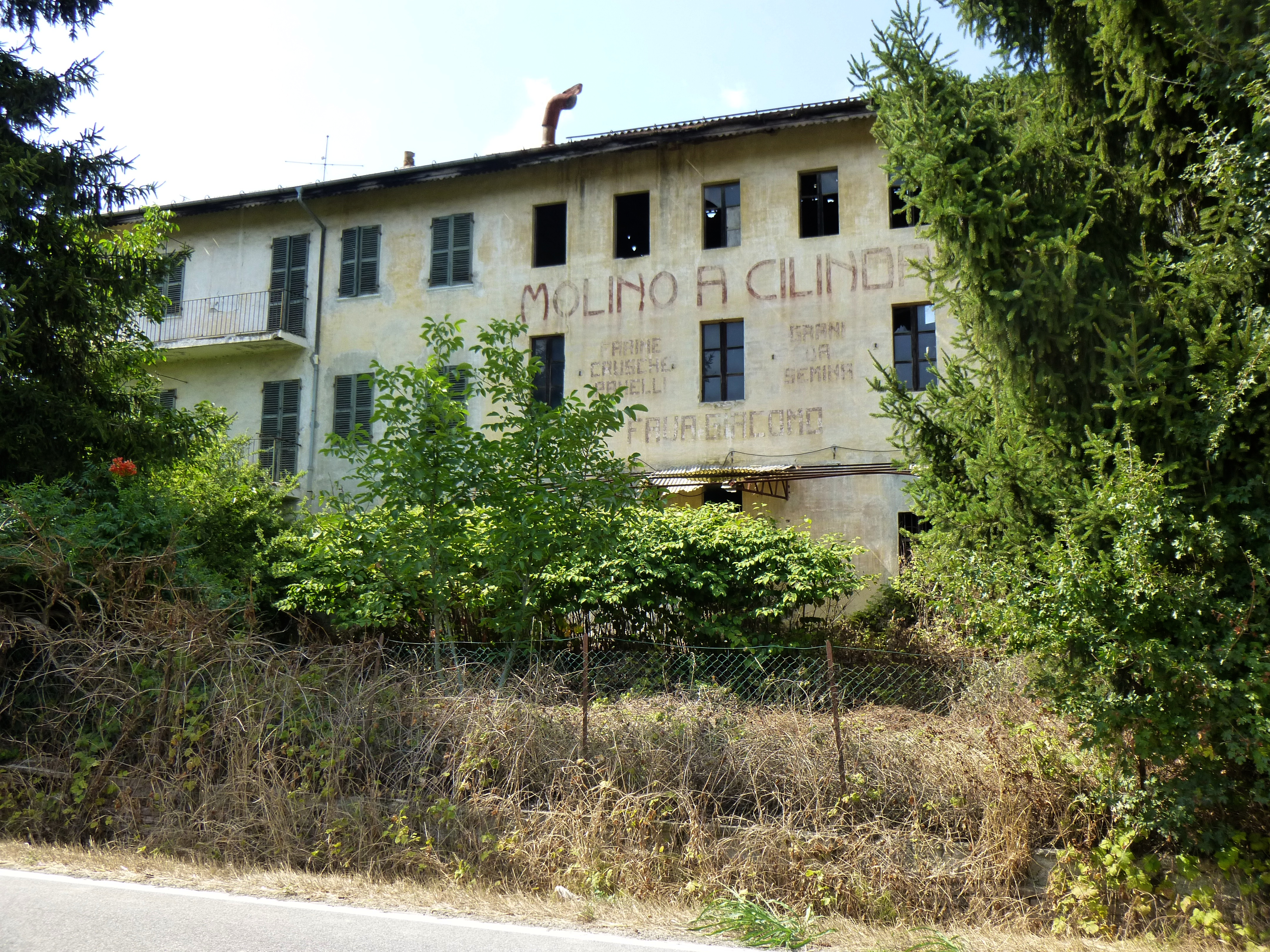 Abandoned mill in San Candido of Murisengo (AL), located along the provincial road. On the facade, it is read, among other things, the type of mill ("MOLINO A CILINDRI", which means "cylinder mill") and the name of the founder: "FAVA GIACOMO".